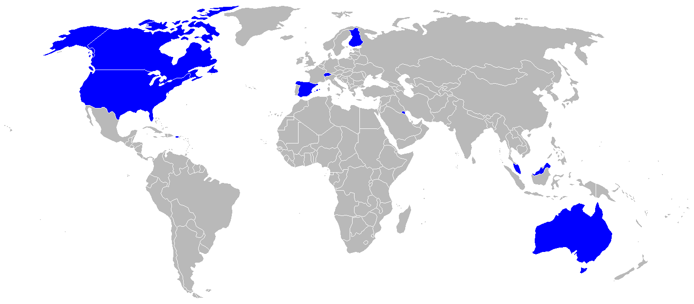 Operators of the F/A-18 Hornet. Does not include the Super Hornet. Own work, derivative of File:BlankMap-World.png